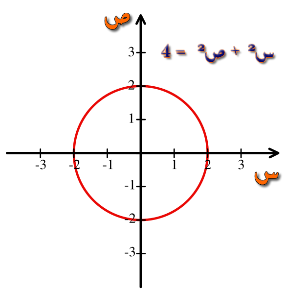 Circle with Cartesian coordinates